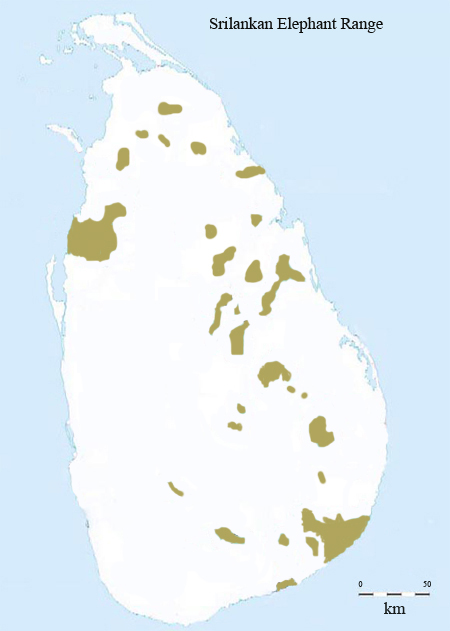 i crated this image